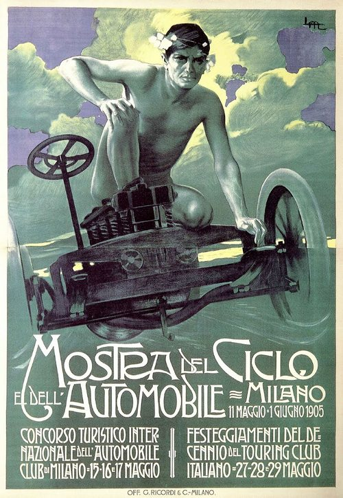 Poster by Leopoldo Metlicovitz.